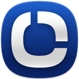 Computer icon for Nokia Suite v3.2.100.0